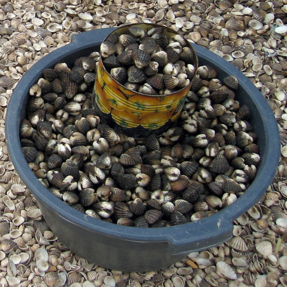 Senilia senilis for sale as a food in a bowl in Senegal.